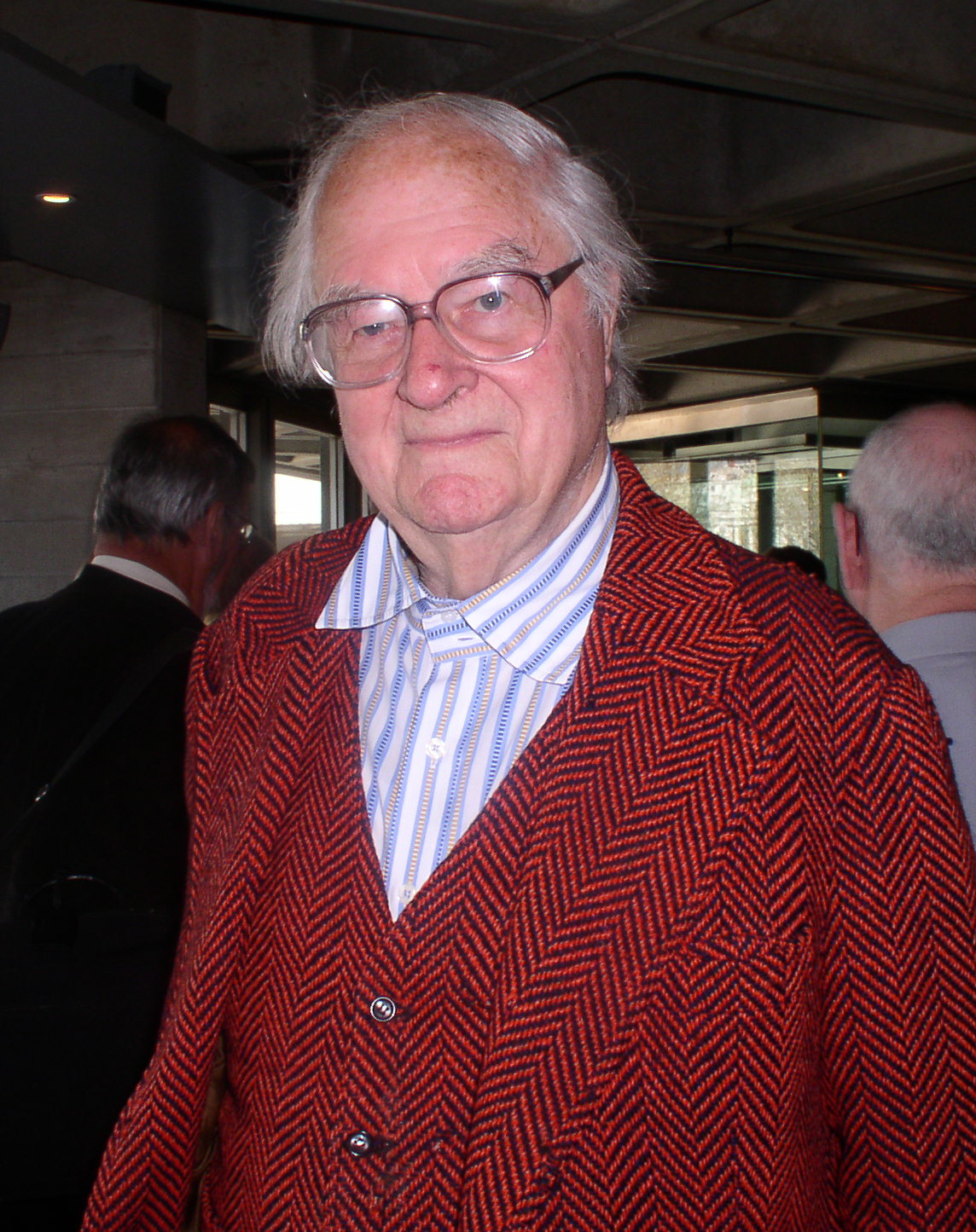 John Amis, music critic, at the Critics' Circle lunch for Alan Ayckbourn in the Terrace Restaurant of the National Theatre on 22 April 2010